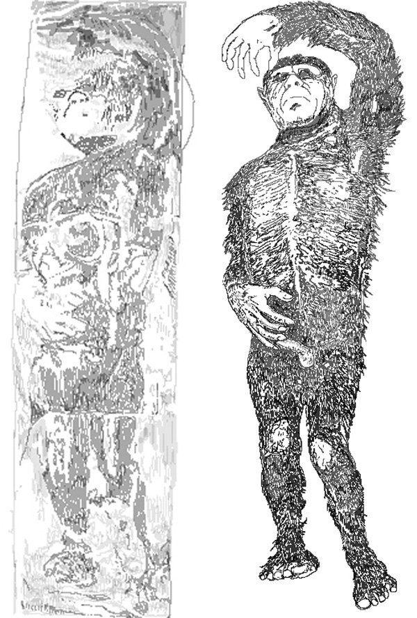 The Minnesota Iceman: frozen, and as described by Bernard Heuvelmans and Ivan T. Sanderson